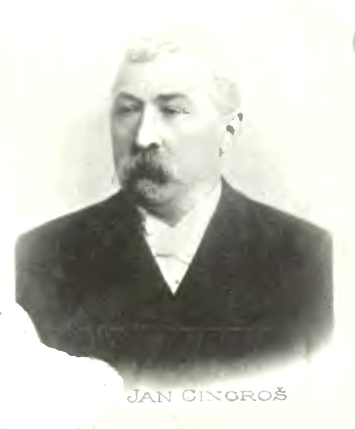 Portrait of Johann (Jan) Cingroš (1841-1906), Czech entrepreneur-stonemason based in Pilsen.